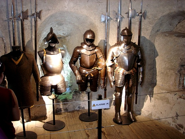 Chillon